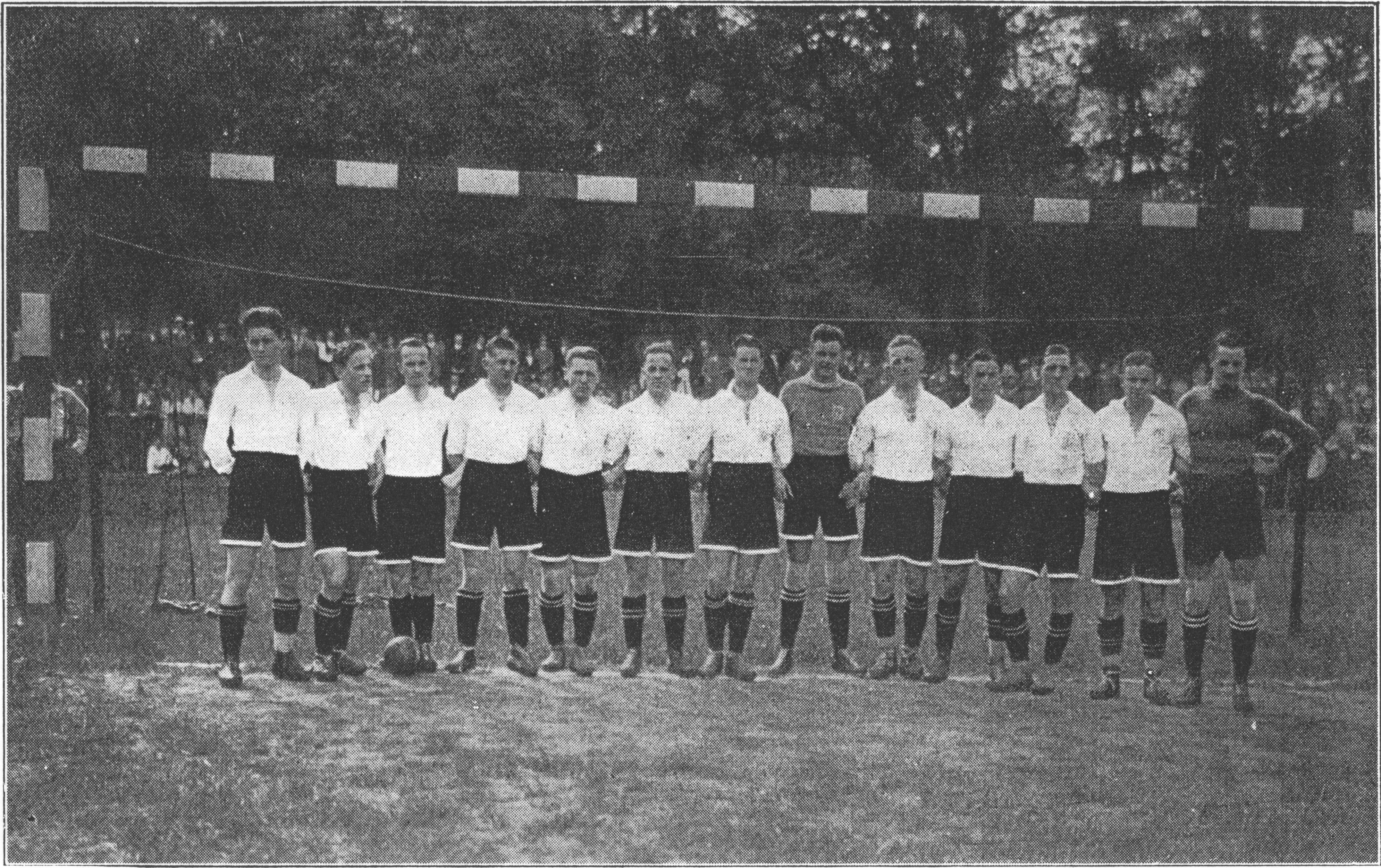 FC Freiburg's first team on the morning of their 5:2 victory against West Ham United (l.t.r.: Hotze. Bantle II, Krämer, Neipp, Klay, Bantle I, Würz, Rieger, Röhler, Spöri, Mayer, Nikelsen, Wirth)